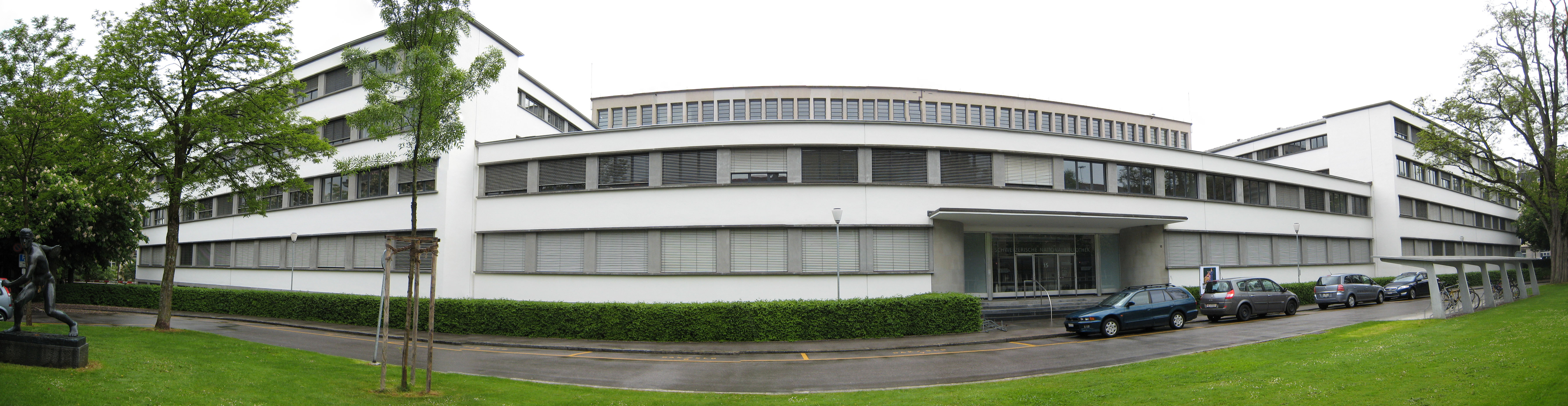 The building of the Swiss National Library and the Federal Office of Culture (FOC), Berne.